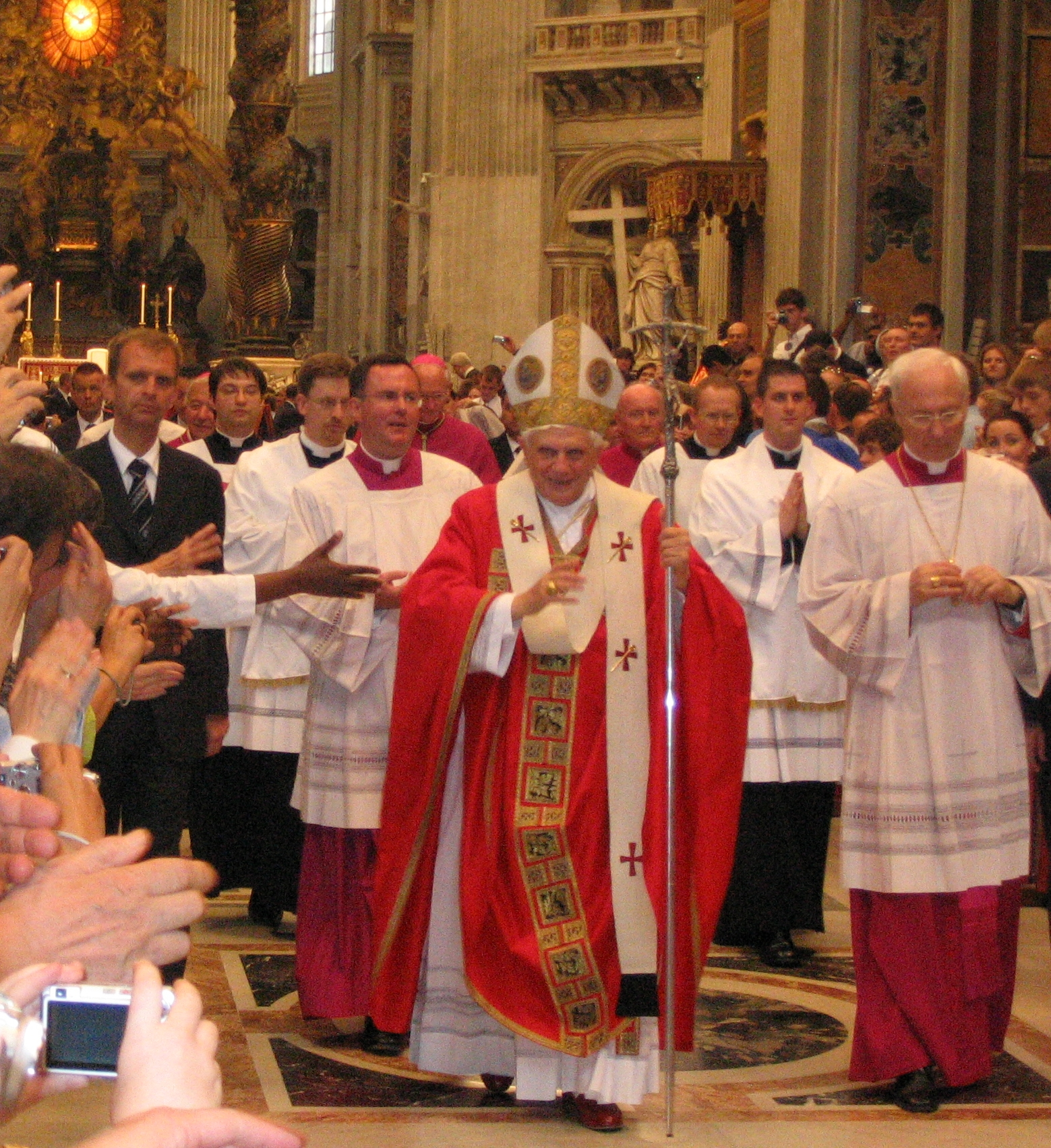 Benedictus XVI in St Peter's Basilica, on June 29th, 2006. He then wore a Papal pallium, similar to those worn till the end of the 9th century. Since June 29th, 2008, he has been wearing another shorter one.